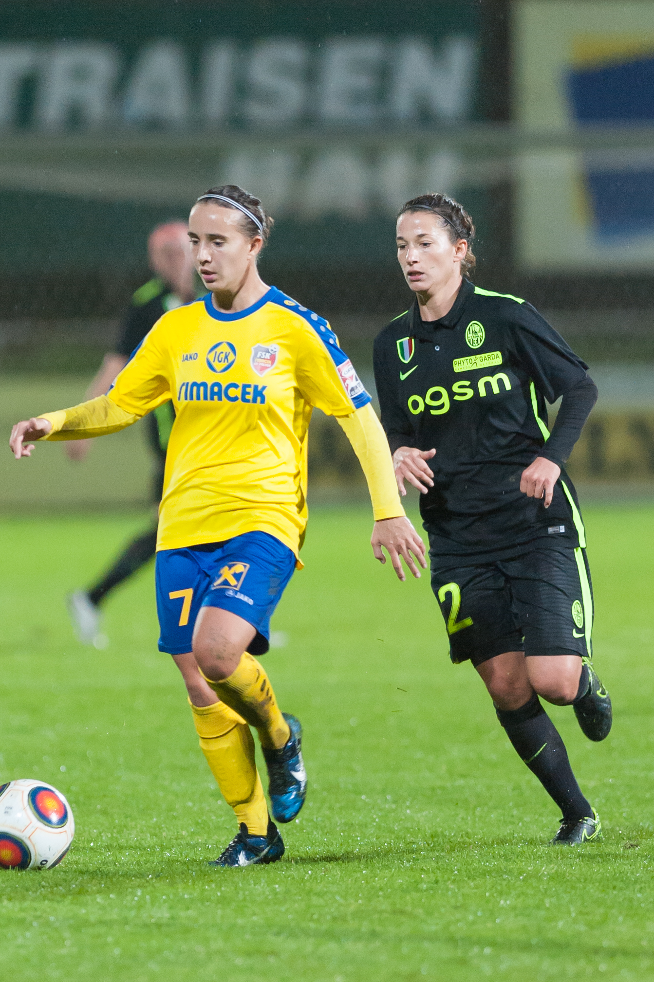 UEFA Women's Champions League FSK St. Pölten-Spratzern vs ASF CF Verona, St. Pölten, 2015-10-07